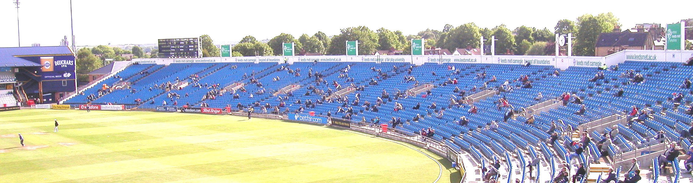 Headingley - The new west stand. In any reproduction acknowledgement must be given in the form: Photographer: Gareth J Dykes